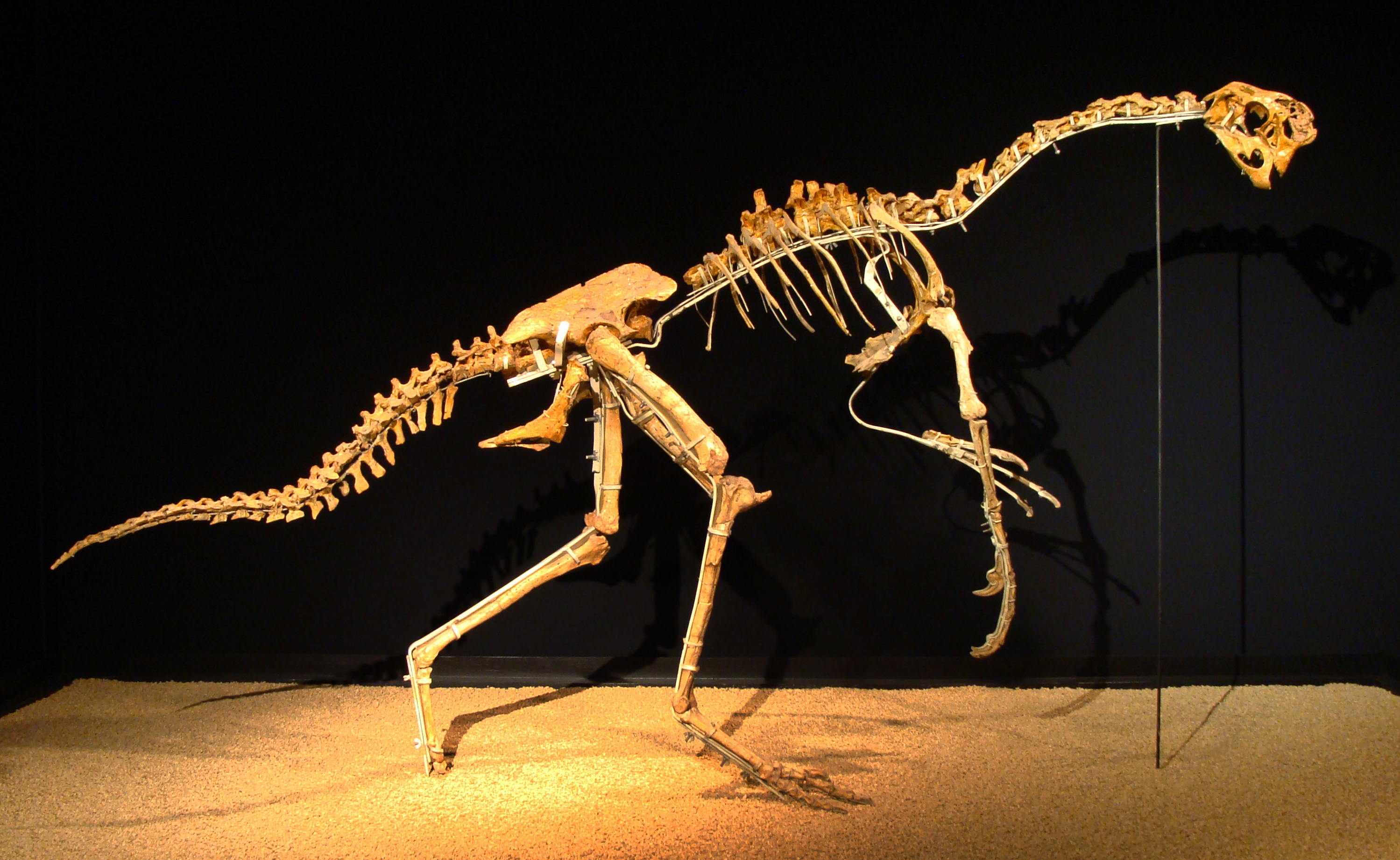 "Citipati osmolskae" (unnamed oviraptorid GIN 100/42) in the exhibition "Dinosaures. Tresors del desert de Gobi" ("Dinosaurs. Treasures of Gobi Desert") in CosmoCaixa, Barcelona.